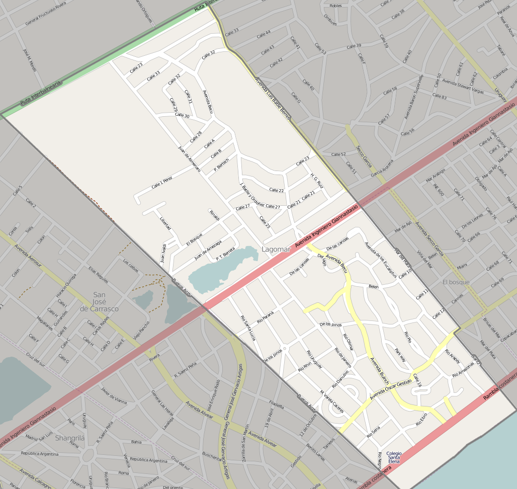 Street map of Lagomar, resort of the Ciudad de la Costa, Canelones Department, Uruguay, exported from OpenStreetMap. I added shading to delimit the resort. This map may be incomplete, and may contain errors. Don't rely solely on it for navigation.